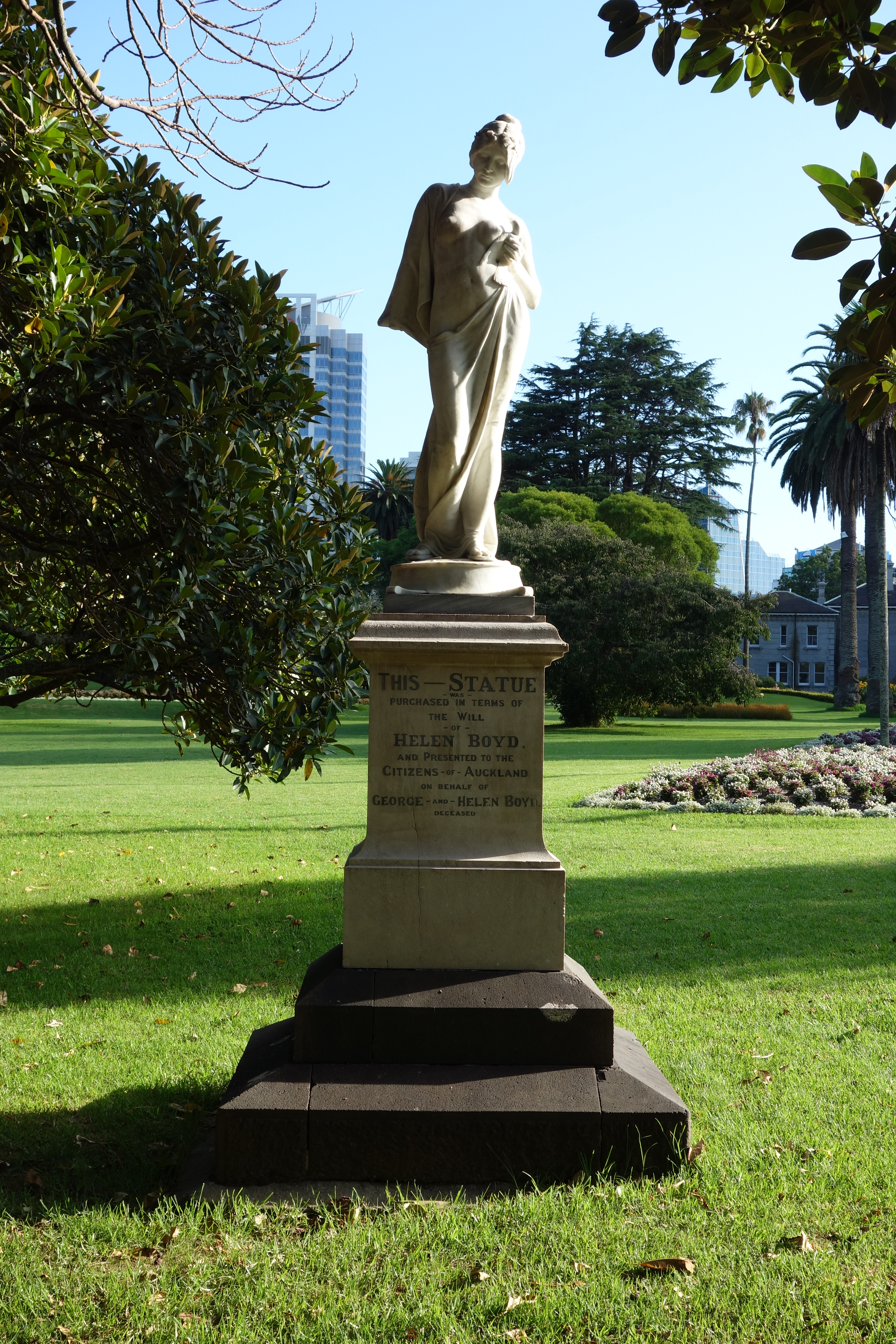 The Boyd statue, which is located near Albert Park House, was erected in 1900.